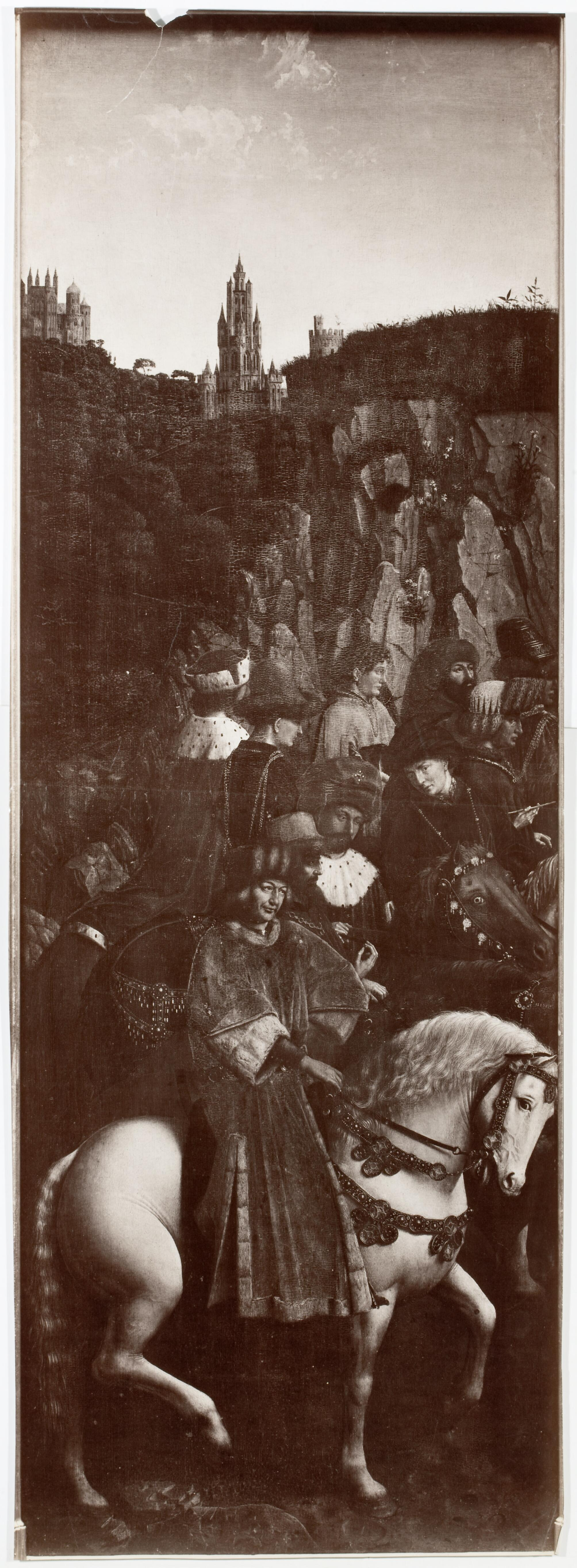 A photograph of the missing original 'just judges' panel from the Ghent Altarpiece E, photograph is by Max Friedländer (1867-1958). The photograph is in the collection of the Netherlands Institue for Art History (RKD).